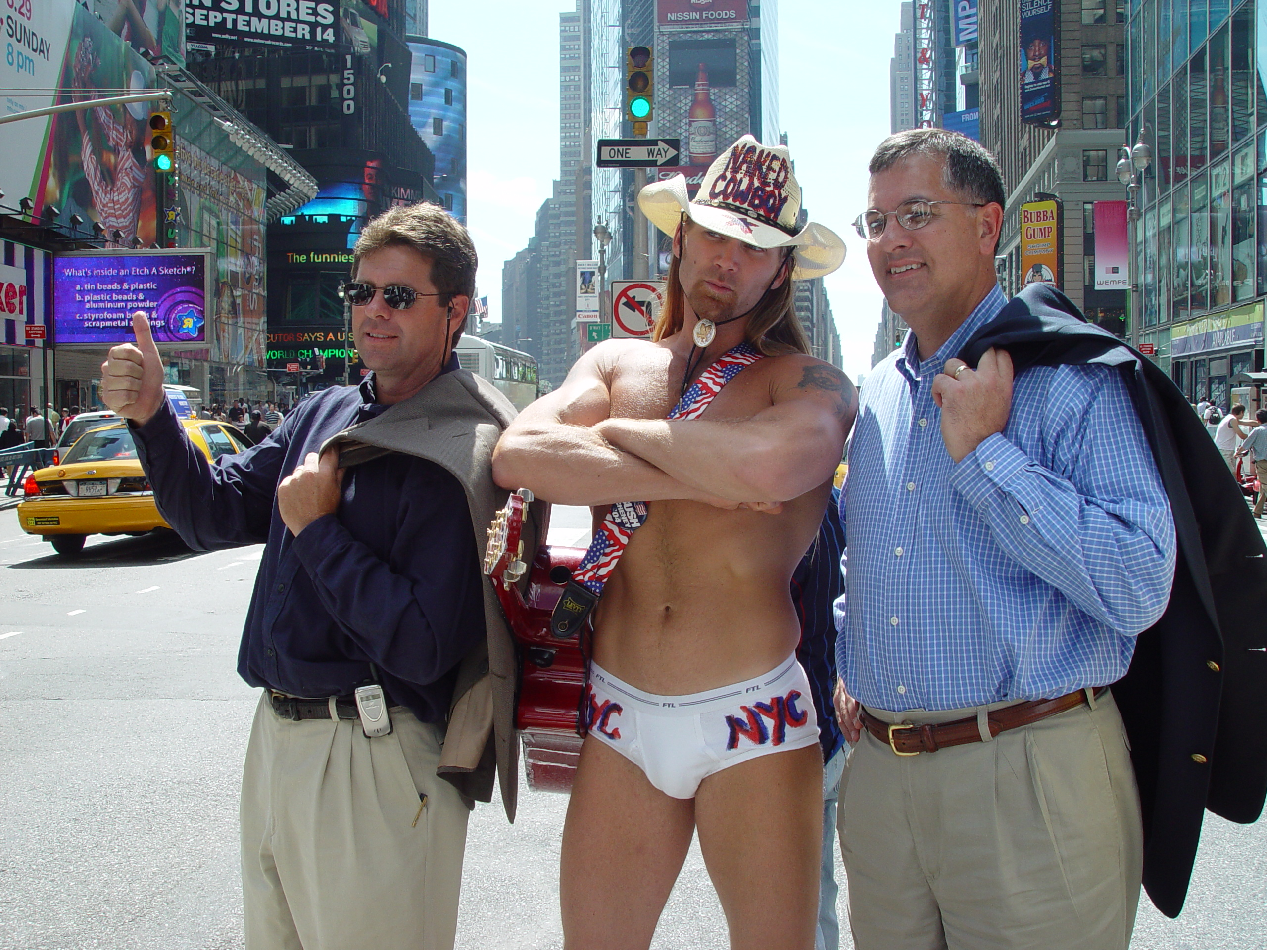 The Naked Cowboy with delegates of the Republican National Convention in Times Square, New York City.